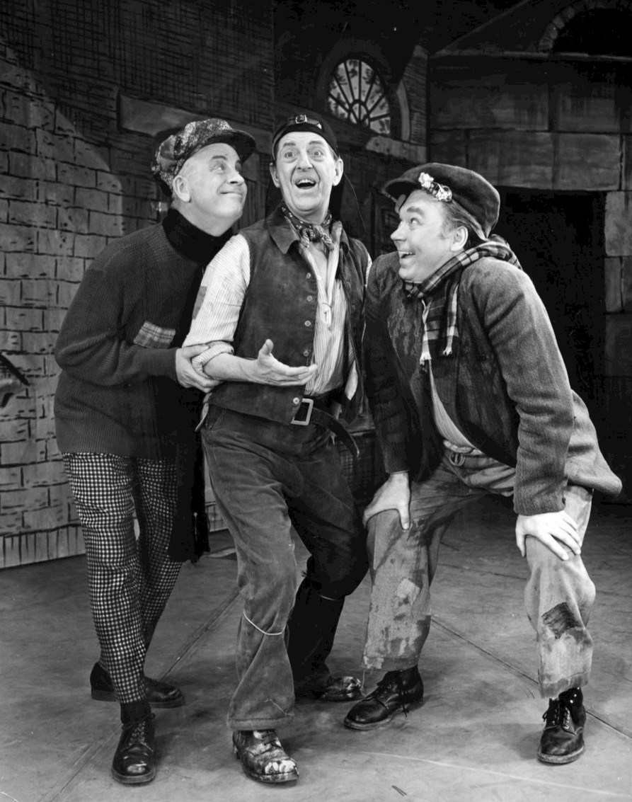 Photo of Stanley Holloway (center) as Alfred P. Doolittle from the Broadway presentation of My Fair Lady. At left is Gordon Dillworth and at right, Rod McLennan. This looks to be one of the "With a Little Bit of Luck" segments.